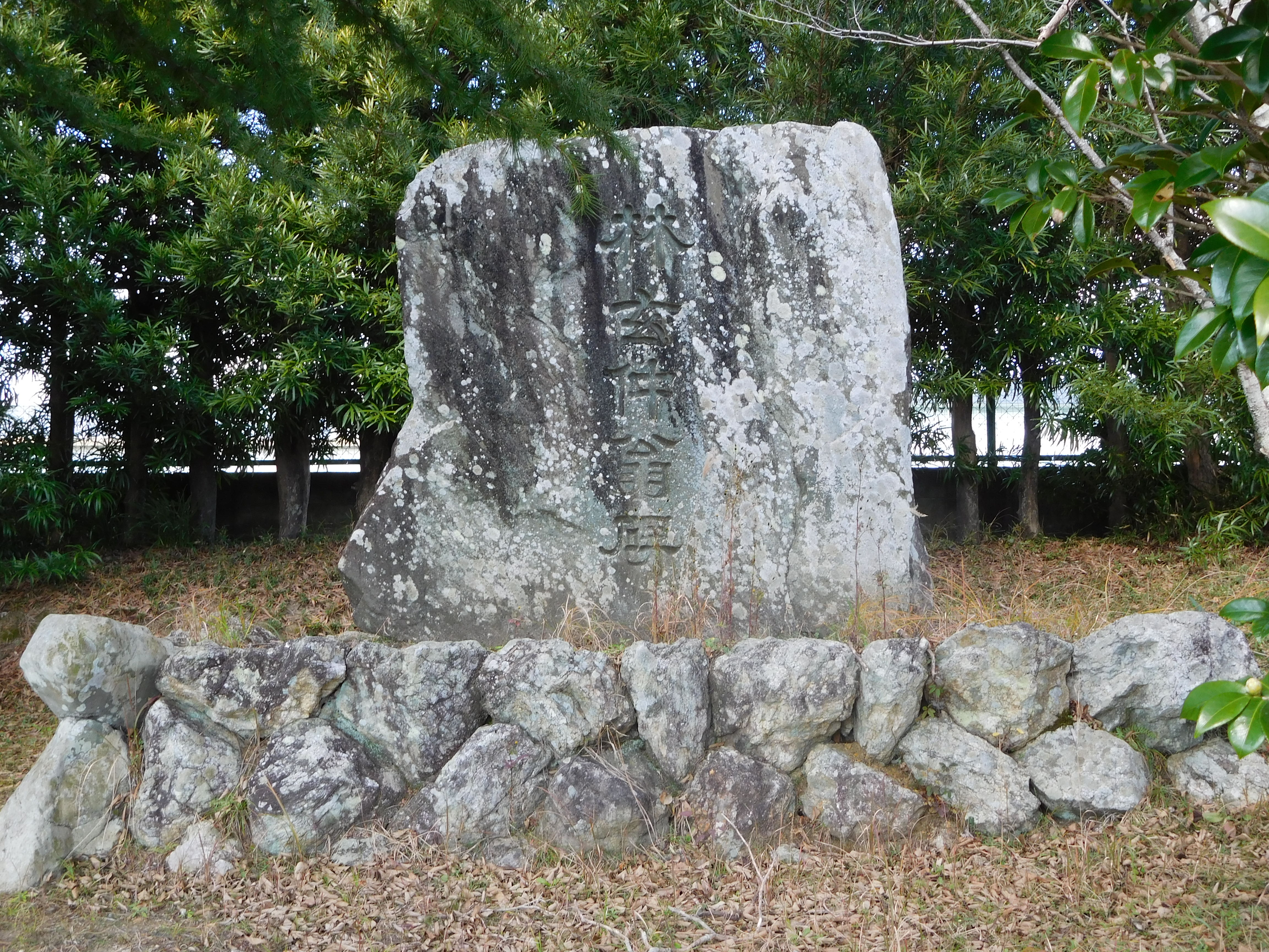 This is the monument of Genchu Hayashi, who was a doctor and a public servant.